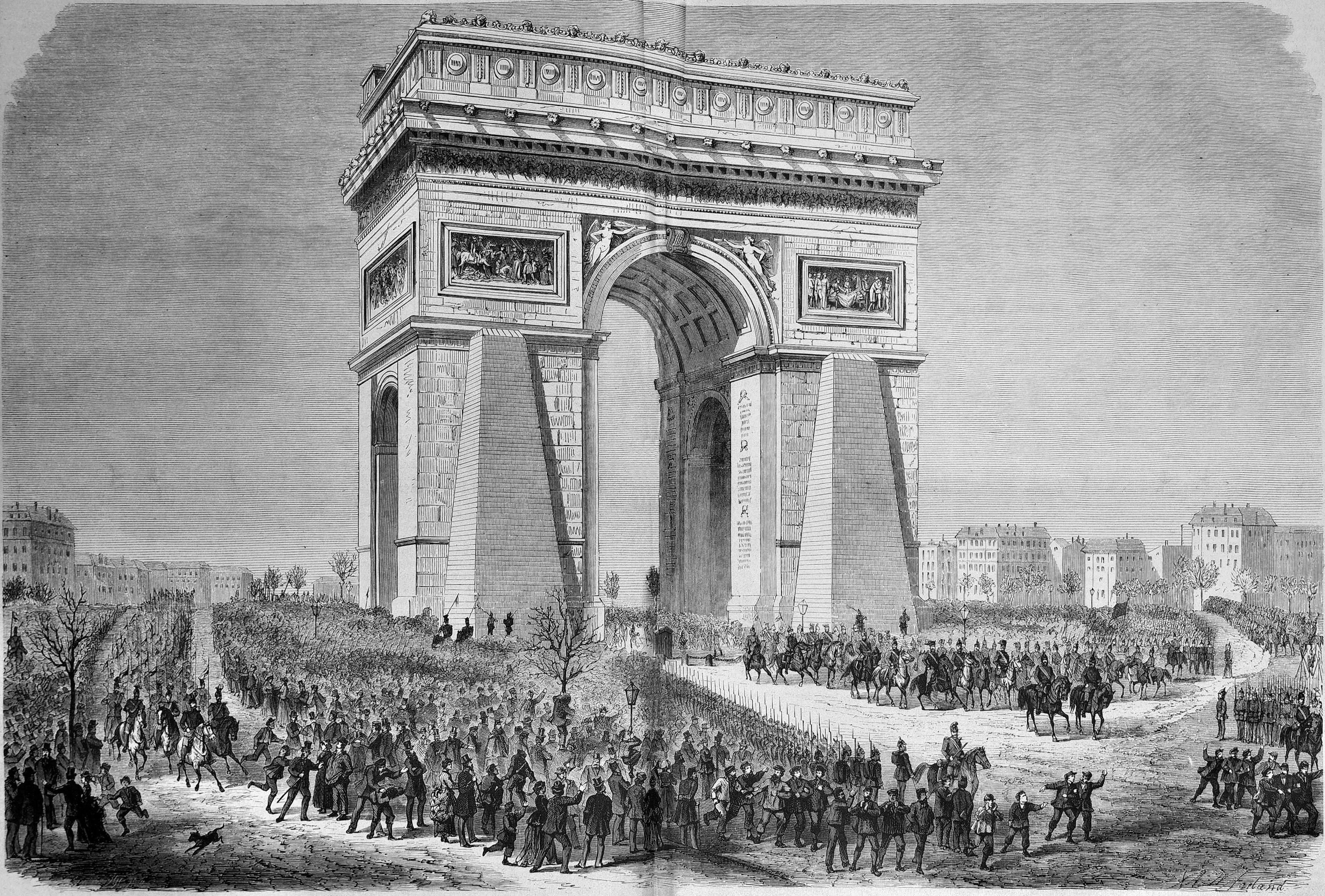 caption: "Der Einzug der deutschen Truppen in Paris am 1. März 1871.Nach der Natur aufgenommen von unserem Feldmaler F. W. Heine."